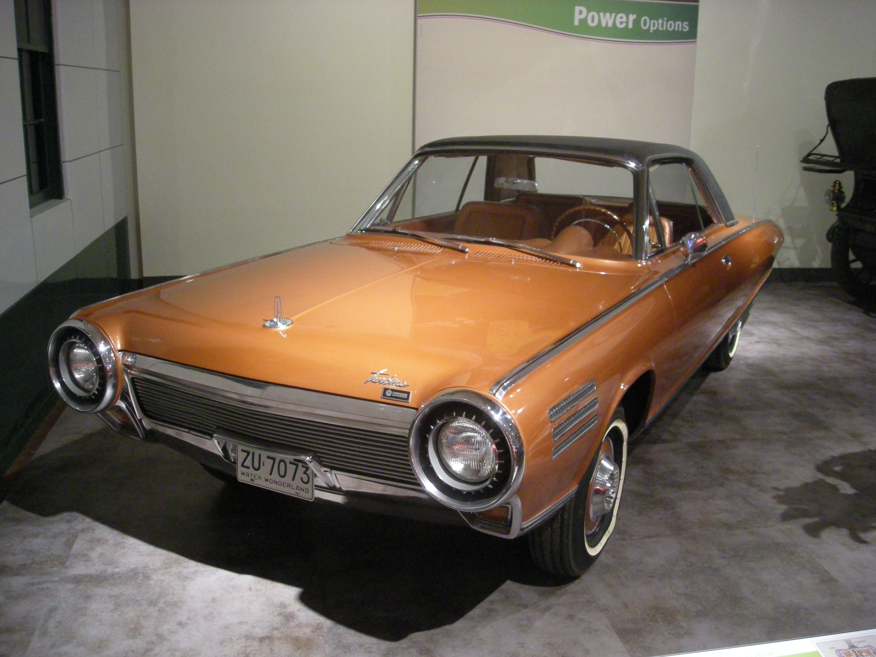 A 1963 Chrysler gas turbine sedan on display at the Henry Ford Museum in Dearborn, Michigan (United States).